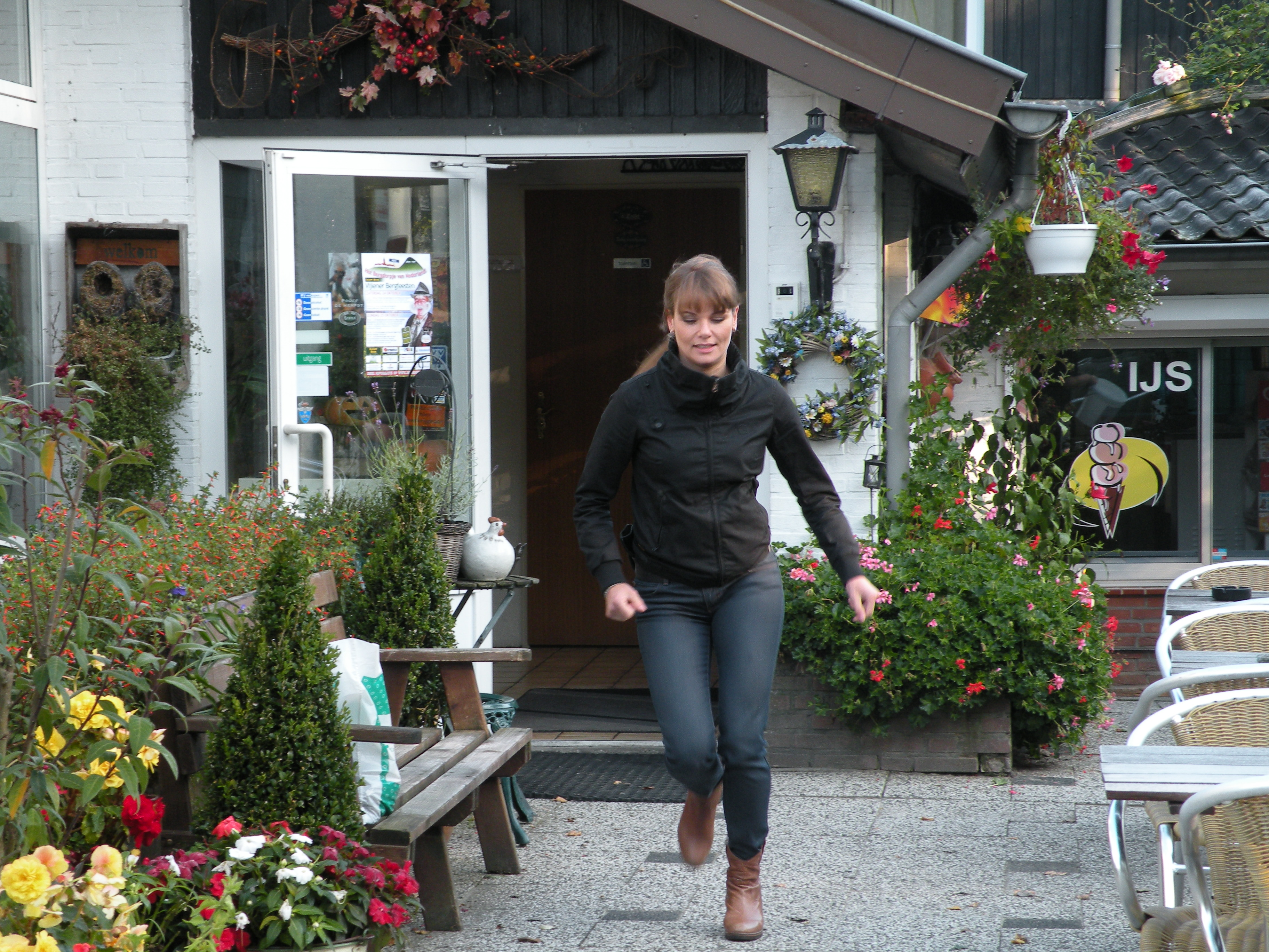 Dutch actress (as character Eva van Dongen, TV-series: Flikken Maastricht)